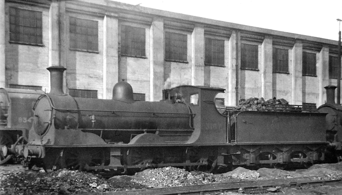 Old Adams 0-6-0 at Feltham Locomotive Depot. No. 3167 was an ex-LSW Adams '0395' class 0-6-0, built in 5/1883 but lasting until 12/56 - latterly on light duties. Of a large class, it was one of the few not sent abroad during World War I.